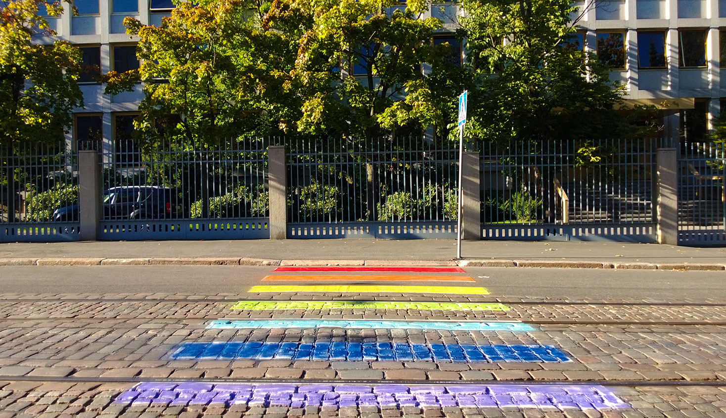 In front of the Russian Embassy in Helsinki, Finland. In 7 September 2013 a group of activists painted the pedestrian crossing stripes with rainbow colors to protest the Russian anti-LGBT sentimentality and legislation, notably the bans on "homosexual propaganda".